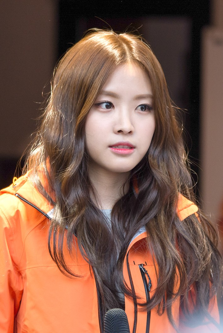 Son Naeun at M Limited fan signing, 22 August 2014